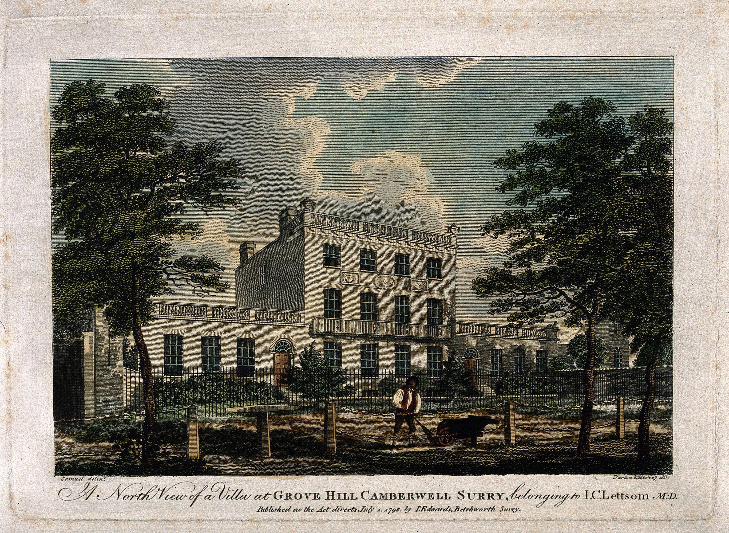 John Coakley Lettsom's house: north view of Grove Hill, Camberwell, Surrey. Coloured engraving by Darton and Harvey, after G. Samuel, 1795. Iconographic Collections Keywords: Darton & Harvey.; George Samuel; William Darton; John Coakley Lettsom